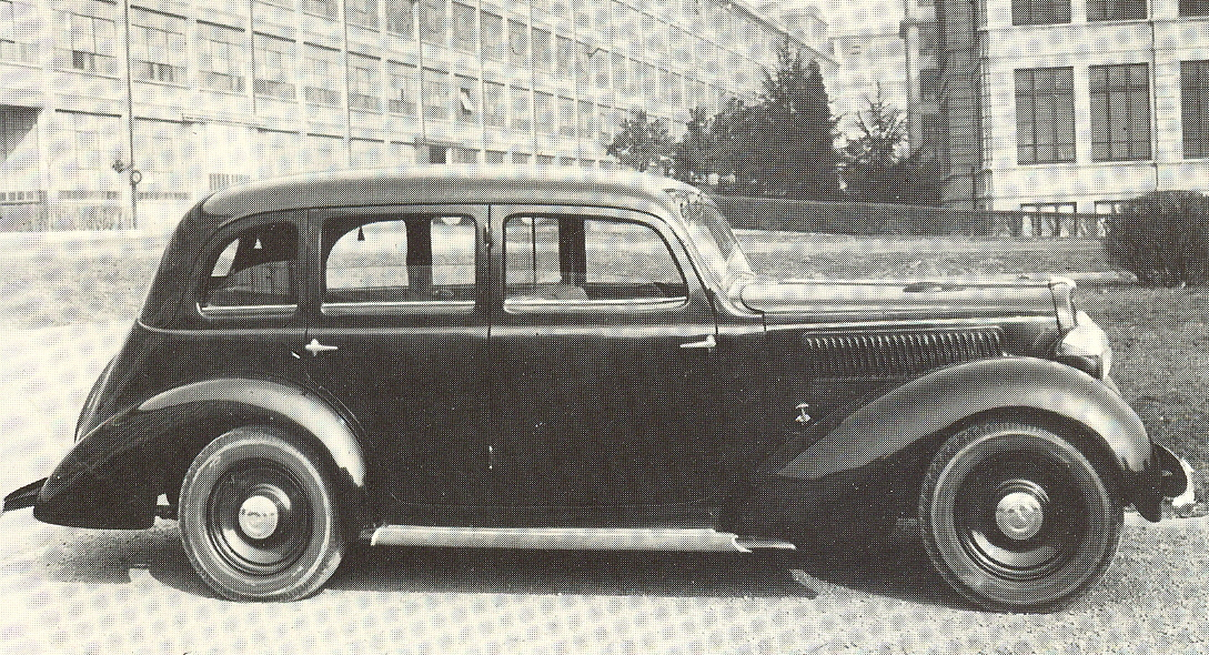 Fiat 518 L (Long Wheel Base)(1933)